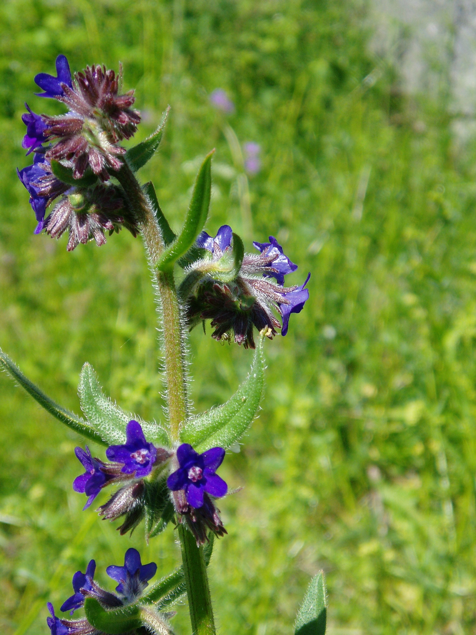 Anchusa officinalis in Drøbak, Norway